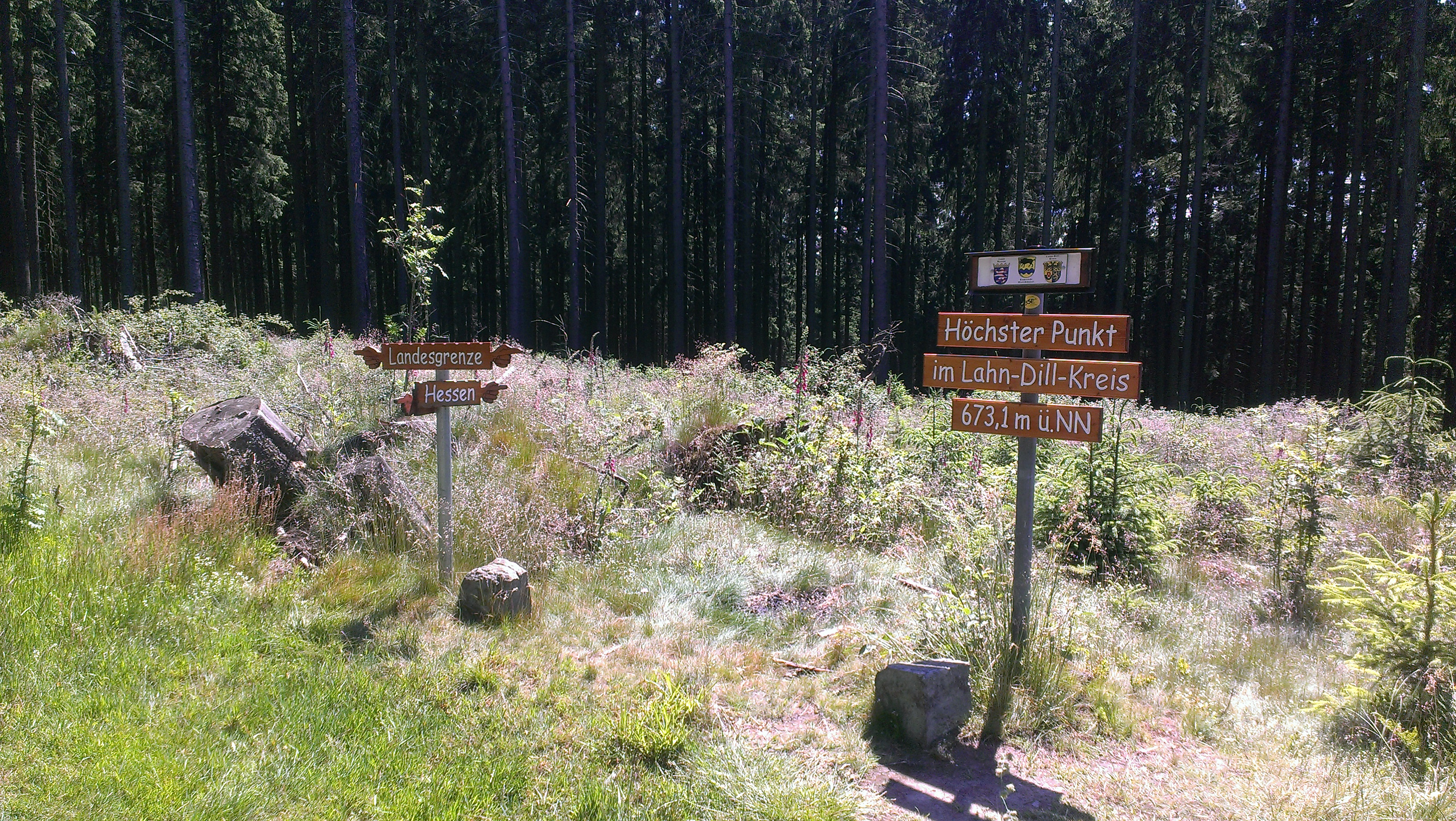 the highest point in Lahn-Dill-Kreis